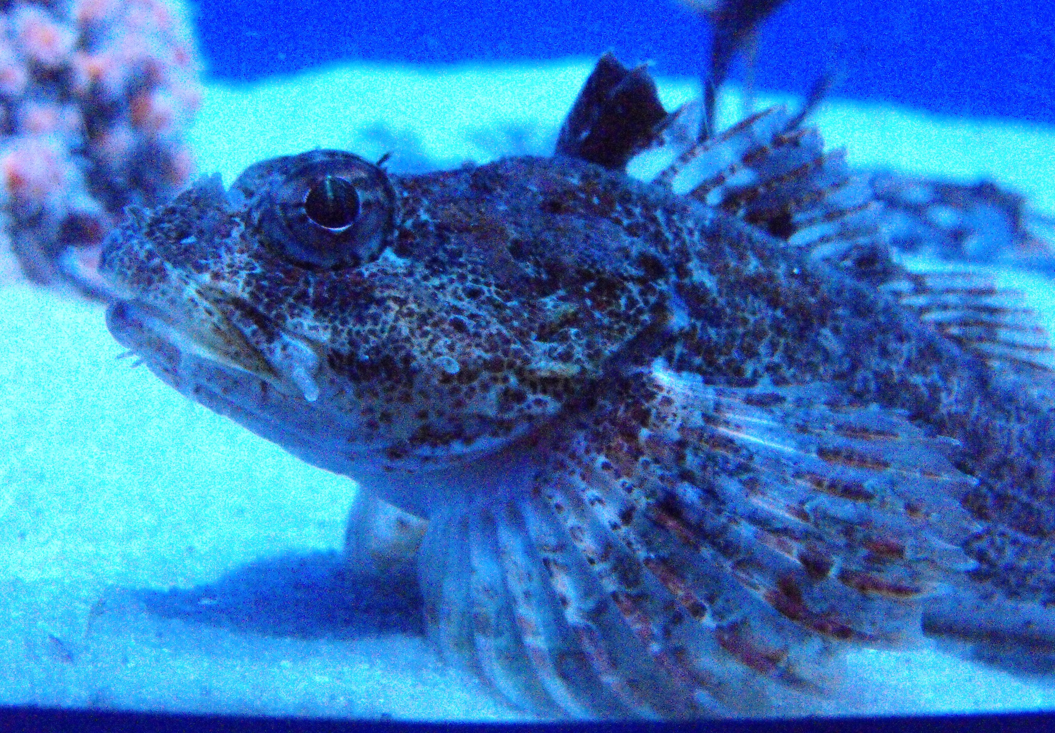 Artedius fenestralis at the Birch Aquarium in San Diego, California, USA.